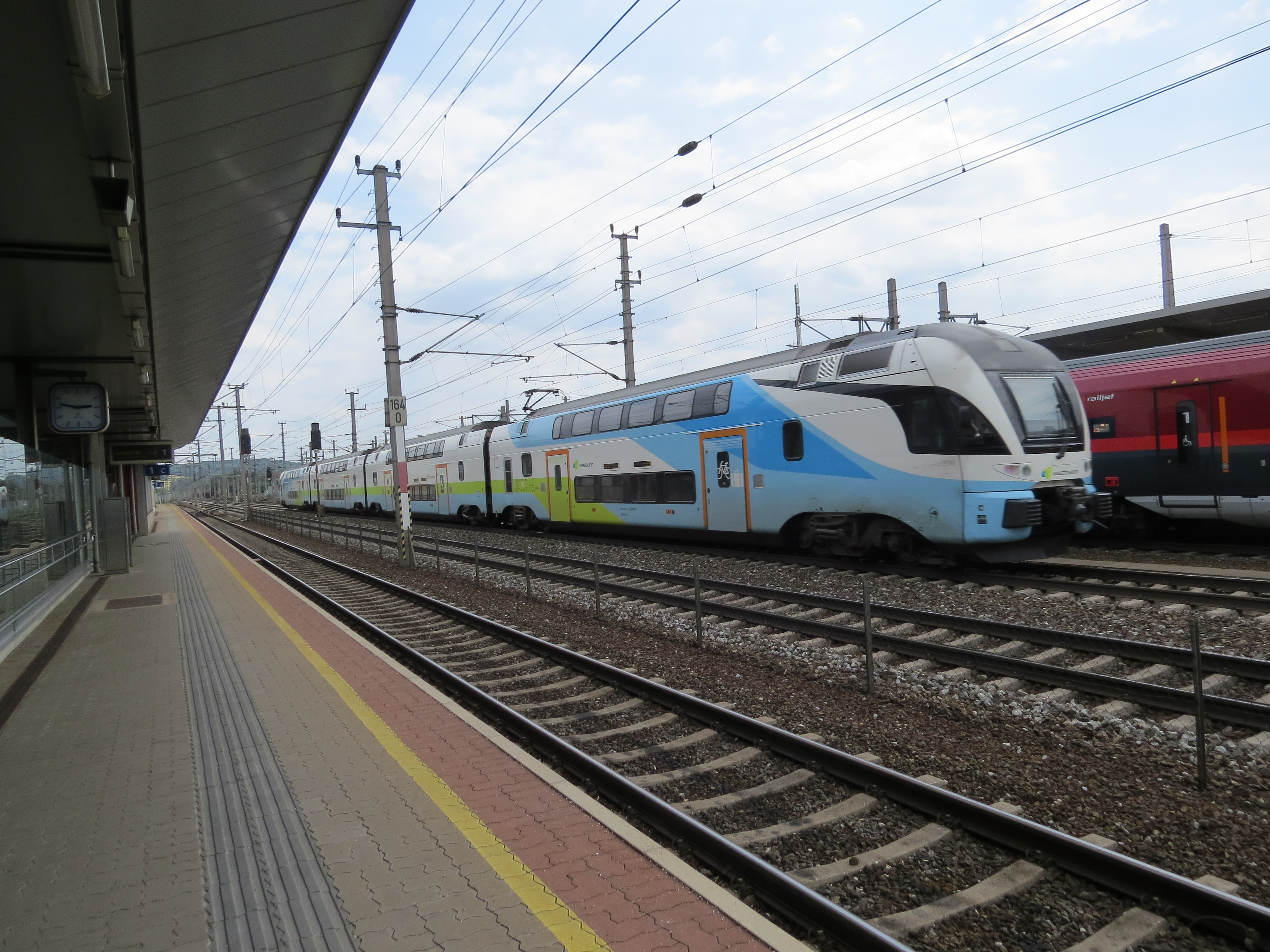 WESTbahn 4110 at train station St. Valentin, Austria